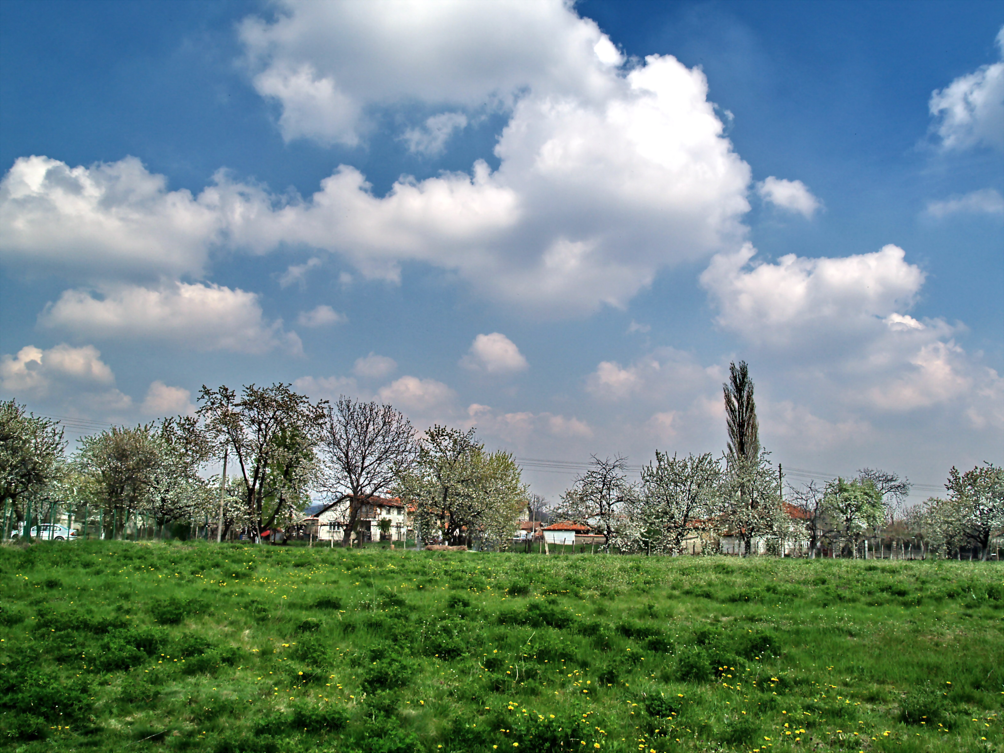 Outskirts of village Karanovo, Sliven District, Bulgaria